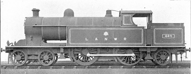 Fig. 1 Two Recent Designs of Tank Engines for Fast Train Working London and North Western Railway "Precursor" tank Nº 528